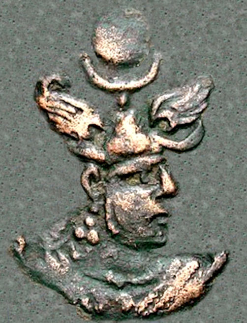 Hephthalite wearing the crown of Peroz I Late 5th century CE